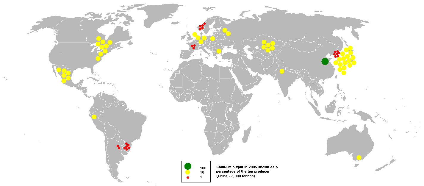 This bubble map shows the global distribution of cadmium output in 2005 as a percentage of the top producer (China - 3,000 tonnes). This map is consistent with incomplete set of data too as long as the top producer is known. It resolves the accessibility issues faced by colour-coded maps that may not be properly rendered in old computer screens. Data was extracted on 3rd June 2007. Source - Based on :Image:BlankMap-World.png